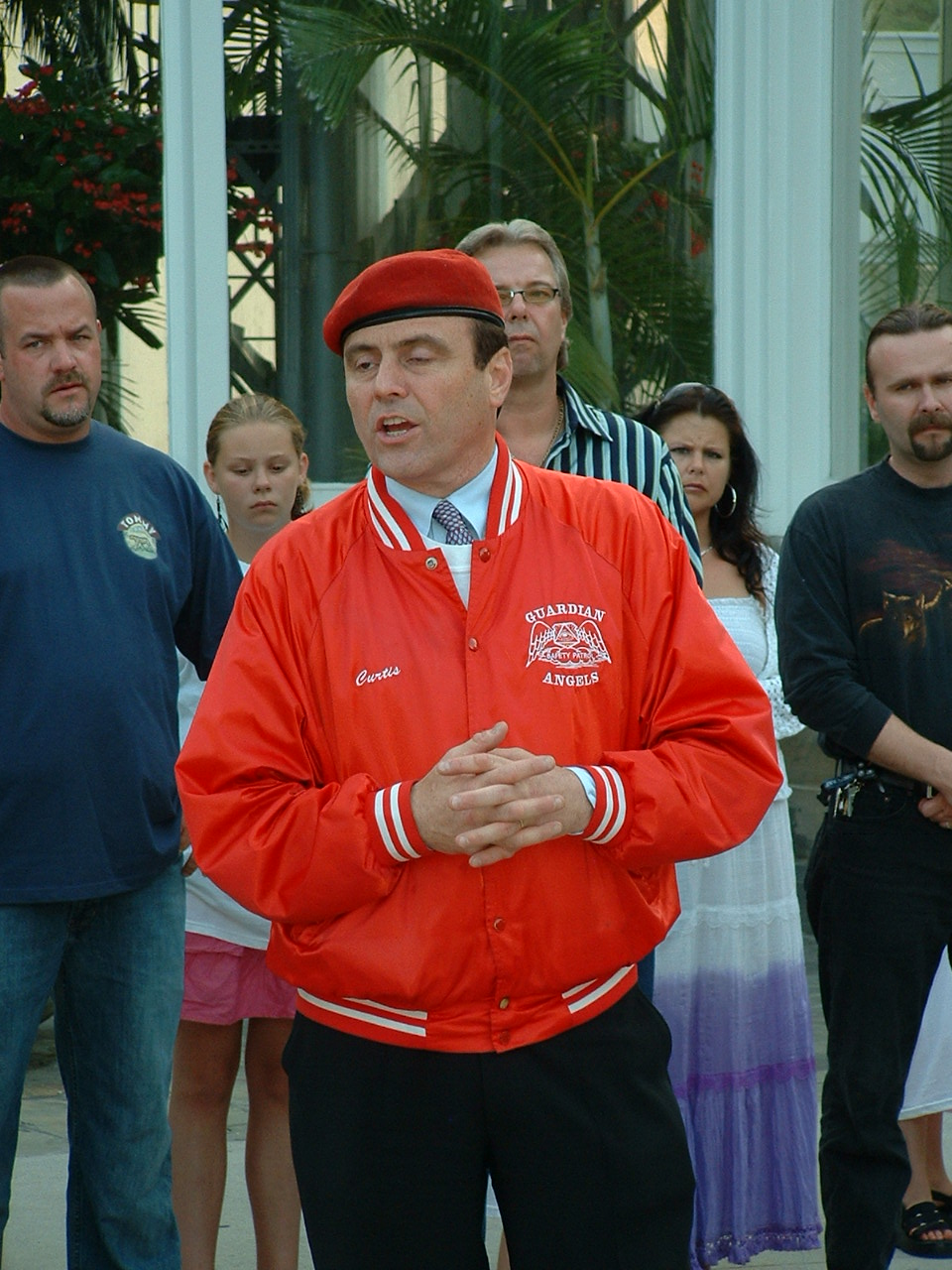 Founder and leader of the Guardian Angels, worldwide icon Curtis Sliwa is a noted radio personality and much sought after public speaker.